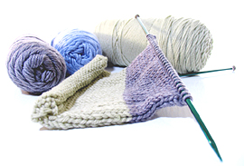 Knitting Needles and Needlepoint